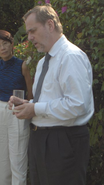 Jan Petersen taken by User:KayEss Taken on the grounds of the Norwegian Ambassador's residence in Bangkok on January 18th 2005.